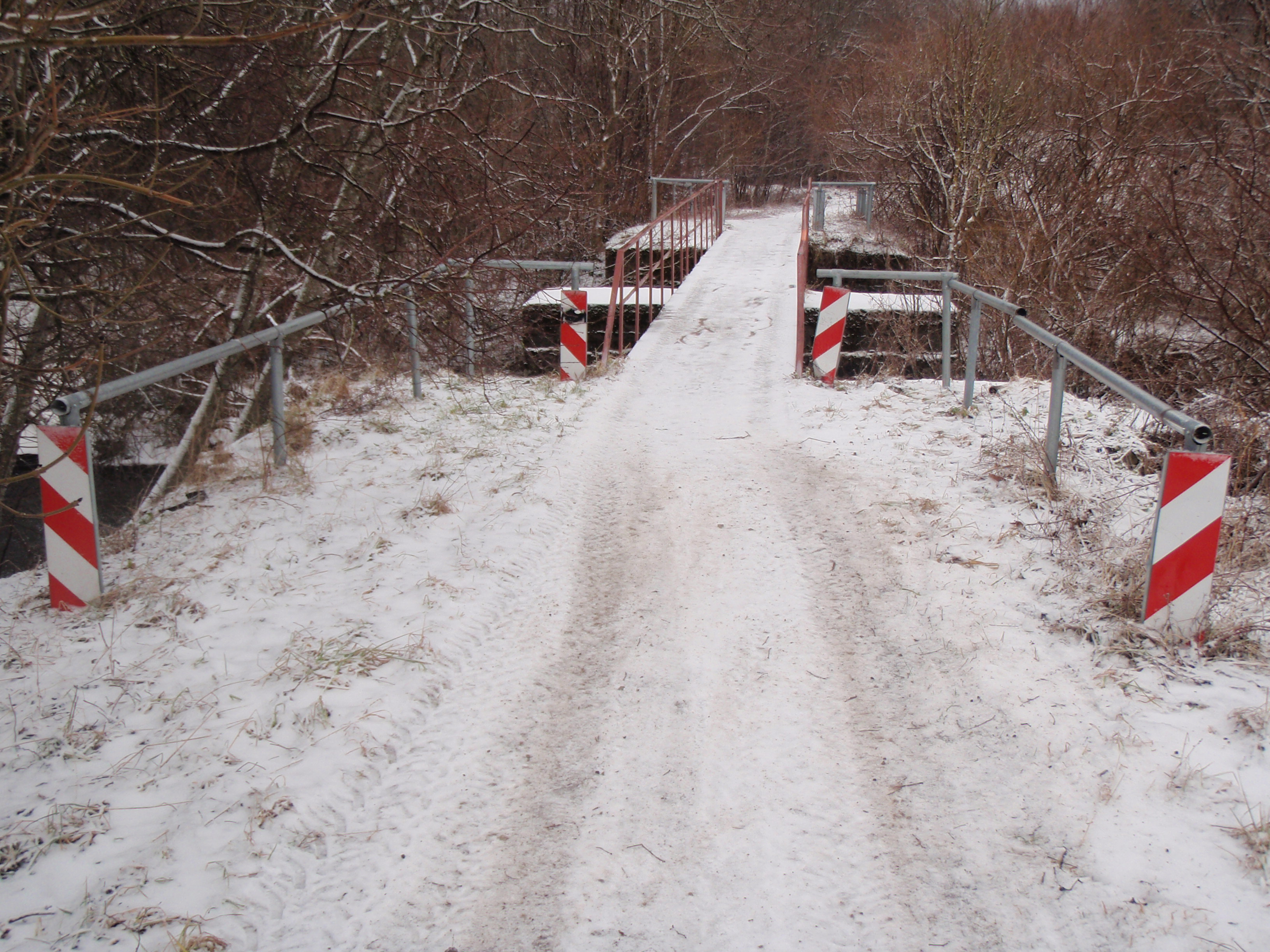 Footbridge across river Vääna in Alliku